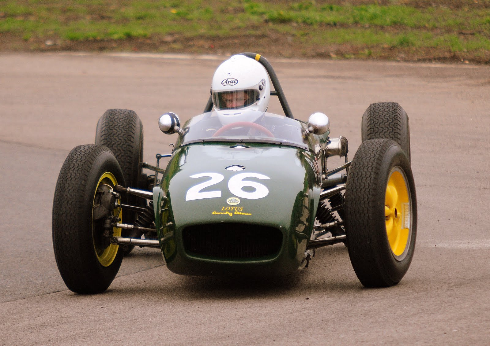 A Lotus 18 racing car rounds the hairpin at Mallory Park race track.